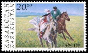 Stamp of Kazakhstan. 1997. December, 30. National sport games. Designed by D. Mukamedjanov. Offset printing on coated paper. Perforation 14. Multicolored. “Bundesdrukerei” Printing House, Berlin. Issued in sheets per 10 (2х5) with margin design. №199. Wrestling. Quantity 100 000. Release (collection) price 24-00t.